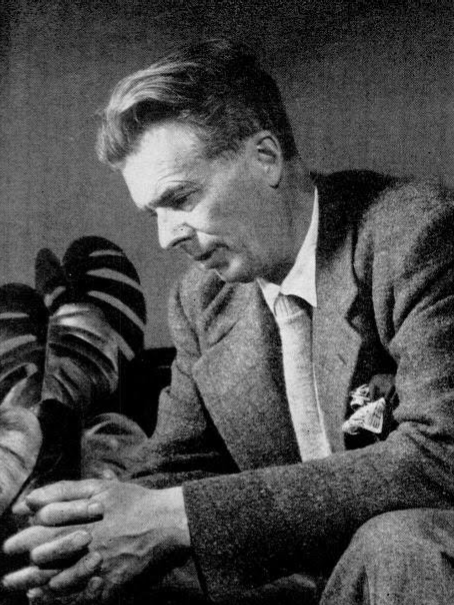 Aldous Huxley the English writer, novelist, philosopher was also a psychical researcher. He published an article in 1954 supporting extrasensory perception (ESP) and psychokinesis (PK) experiments.